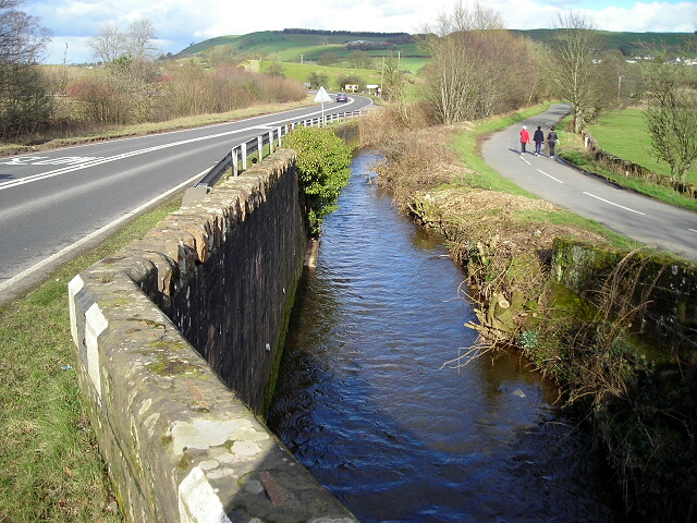 Amisfield Burn